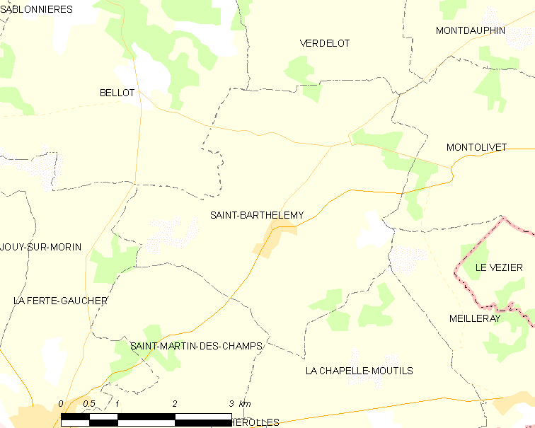 Map of French municipality Saint-Barthélemy